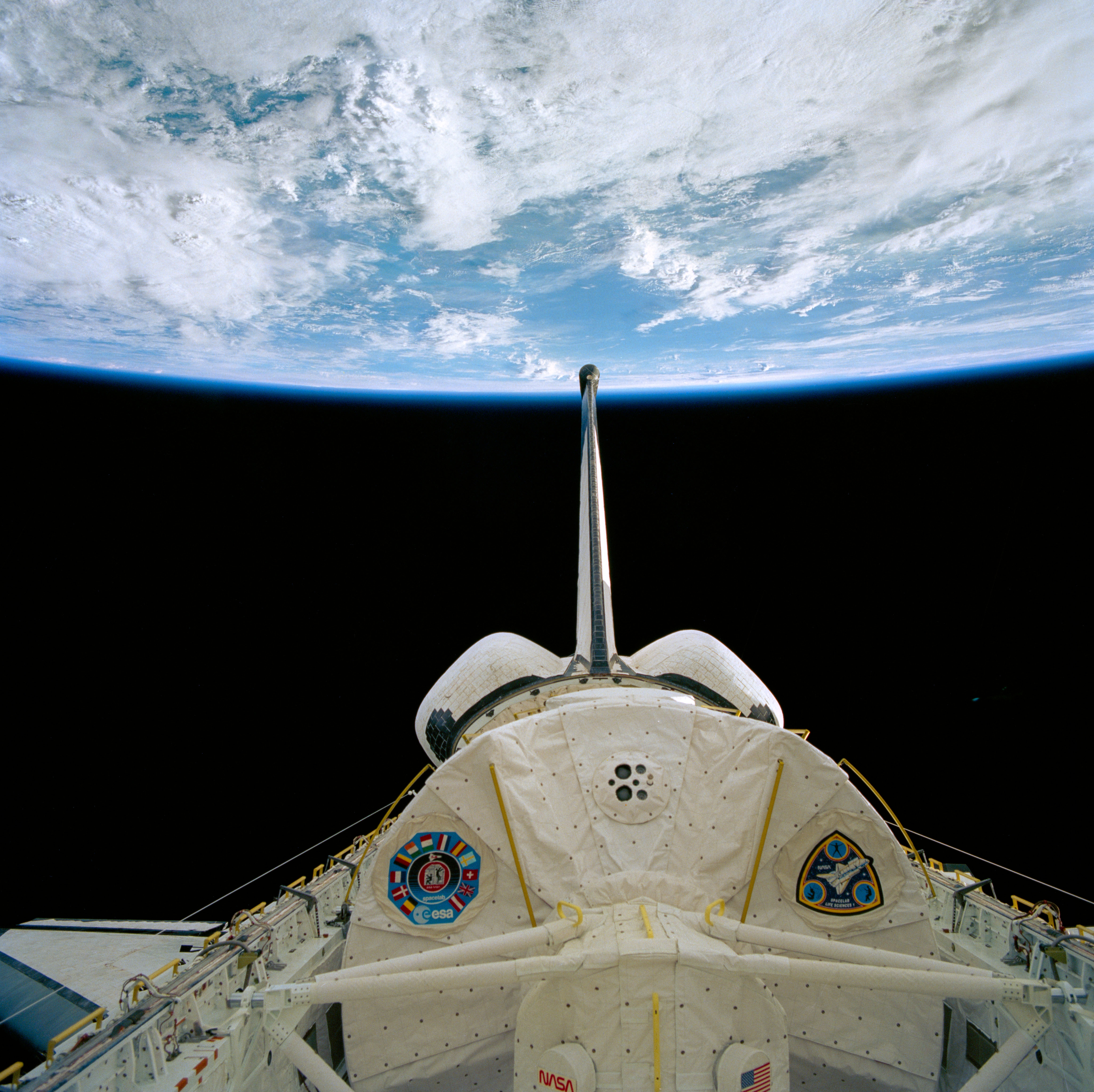 View of Columbia's payload bay showing Spacelab on STS-40. STS-40 Spacelab Life Science 1 (SLS-1) module is documented in the payload bay (PLB) of Columbia, Orbiter Vehicle (OV) 102. Included in the view are: the spacelab (SL) transfer tunnel joggle section and support struts; SLS-1 module forward end cone with the European Space Agency (ESA) SL insignia, SLS-1 payload insignia, and the upper feed through plate (center); the orbiter maneuvering system (OMS) pods; and the vertical stabilizer with the Detailed Test Objective (DTO) 901 Shuttle Infrared Leeside Temperature Sensing (SILTS) at the top 24 inches. The vertical stabilizer points to the Earth's limb and the cloud-covered surface of the Earth below.